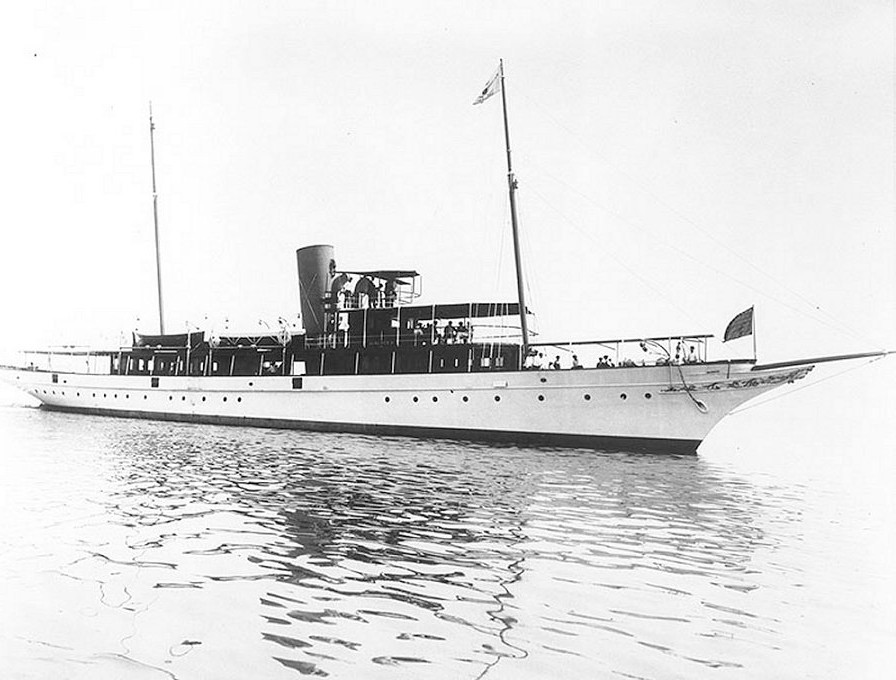 Photo #: NH 96132 Galatea (American Steam Yacht, 1914) Probably photographed upon completion by her builder, Pussey and Jones of Wilmington, Delaware. This yacht was acquired by the Navy on 26 July 1917 and placed in commission on 16 November 1917 as USS Galatea (SP-714). She was stricken from the Navy list on 18 August 1919 and delivered to her purchaser on 14 February 1922. The original photograph is in Record Group 19-LCM in the National Archives. U.S. Naval Historical Center Photograph.